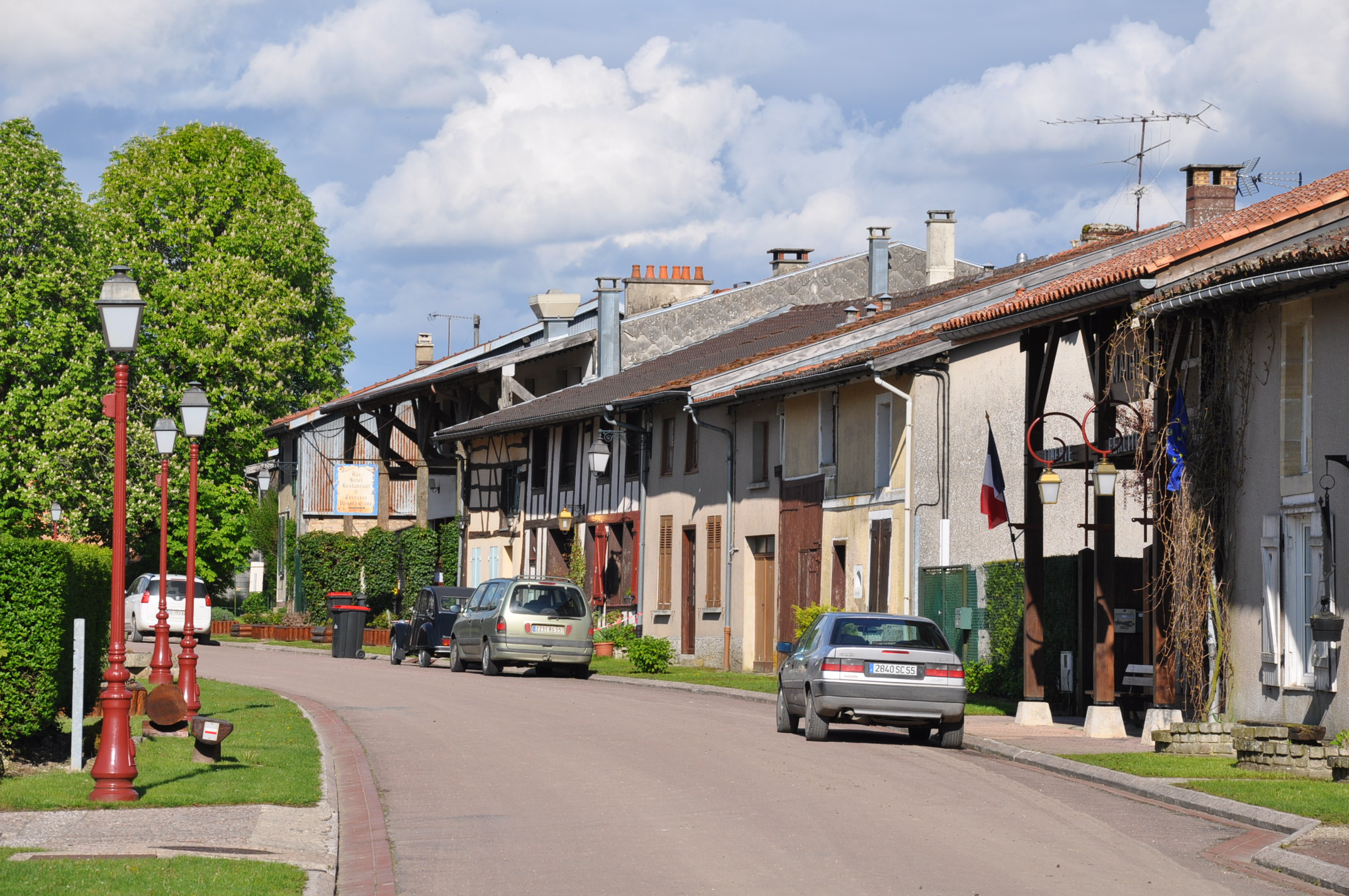 The Grande Rue in Beaulieu-en-Argonne (canton Seuil-d'Argonne, Meuse department, Lorraine region, France).